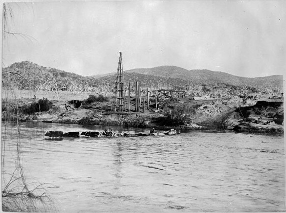 Photo taken in 1894 by O'Hanlon of the Tharwa bridge under construction. This was the first bridge across the Murrumbidgee River in the area and is the oldest bridge still standing in the Australian Capital Territory, and the oldest of it's type in Australia. Sourced at the NLA [1]